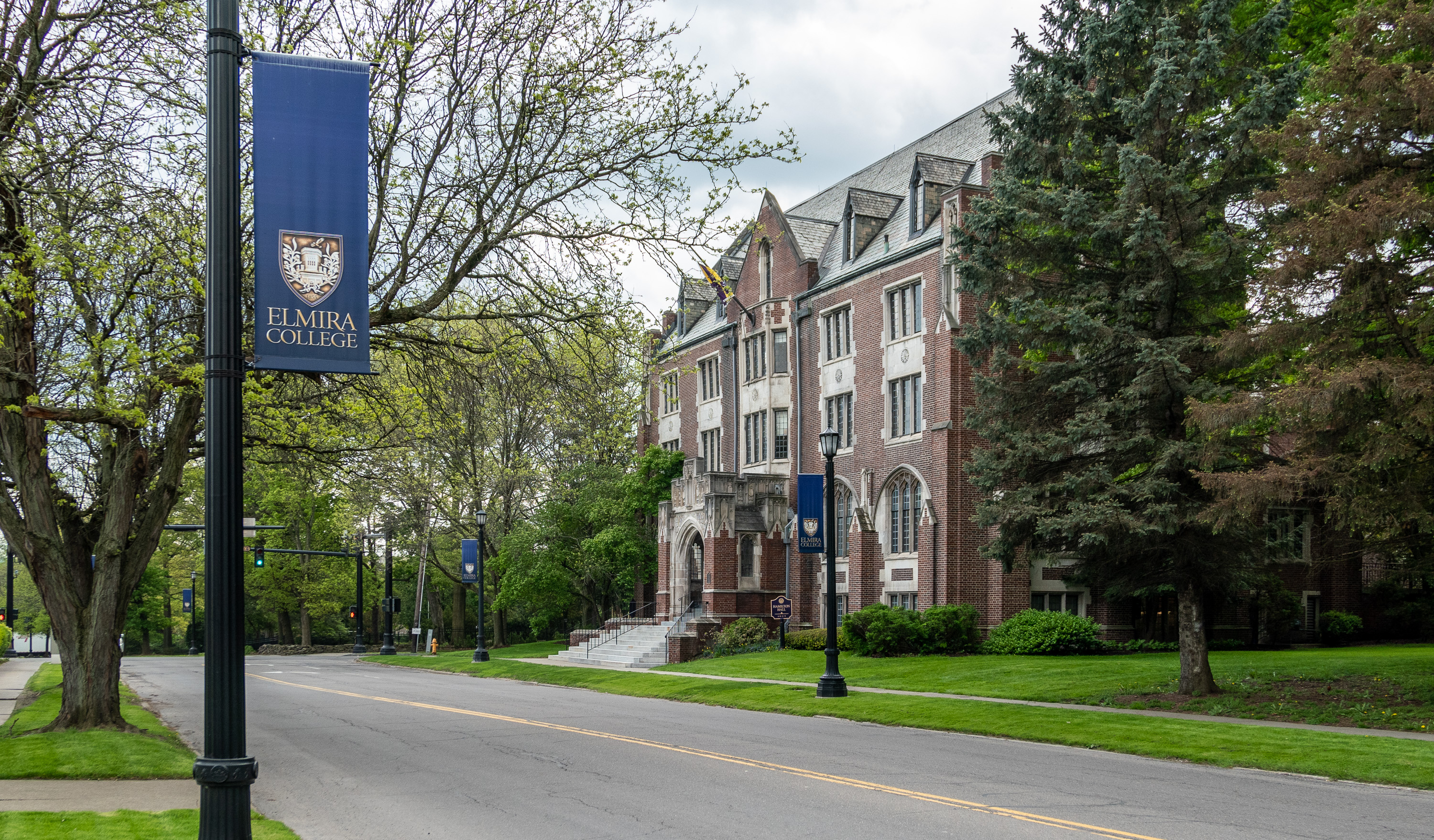 Hamilton Hall and College Avenue, Elmira College, Elmira New York